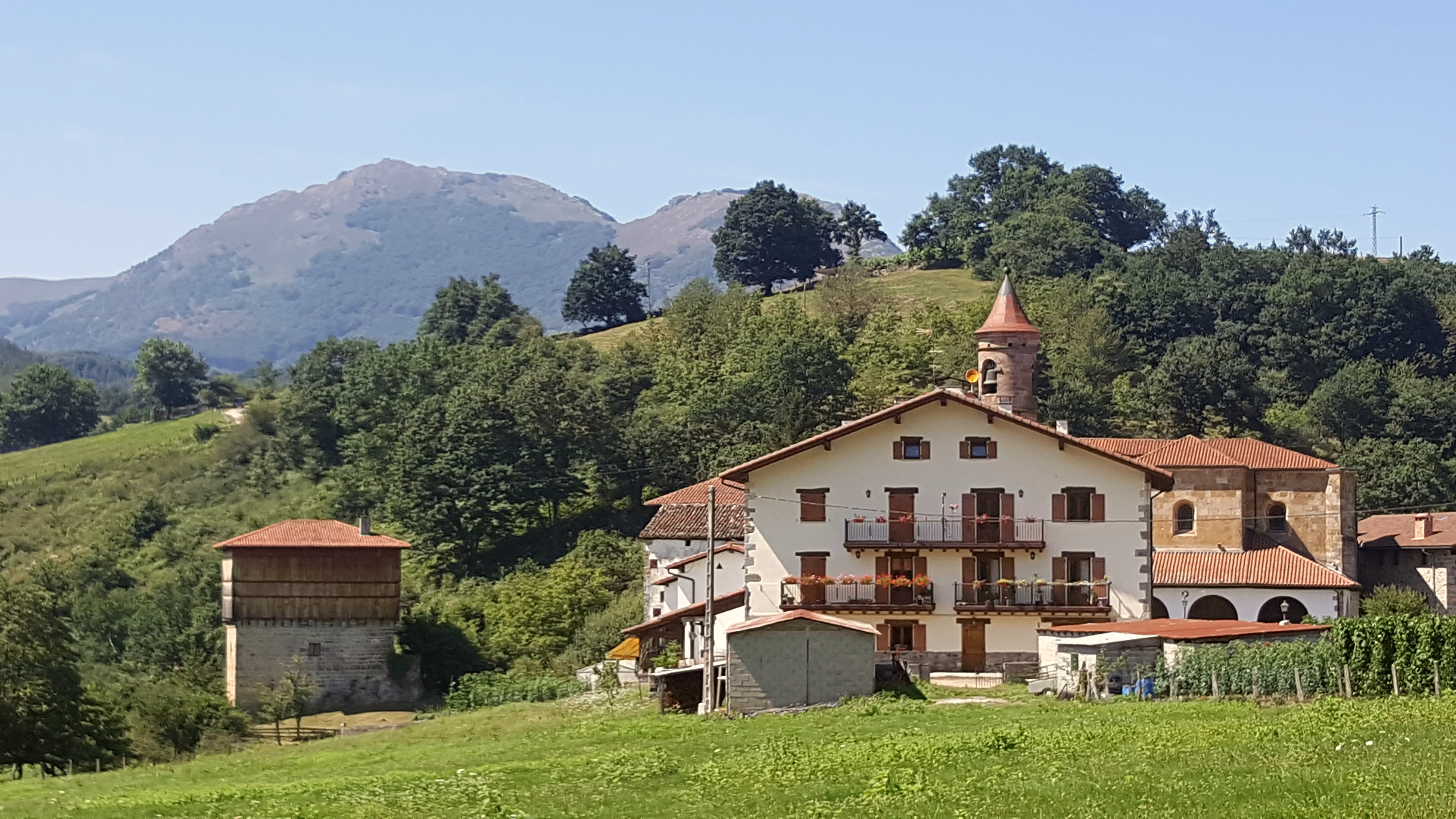 Jauregia Tower House in Donamaria. Behind Mount Mendaur, and to the left the church of the Ascension in the district of Artze. Navarre.